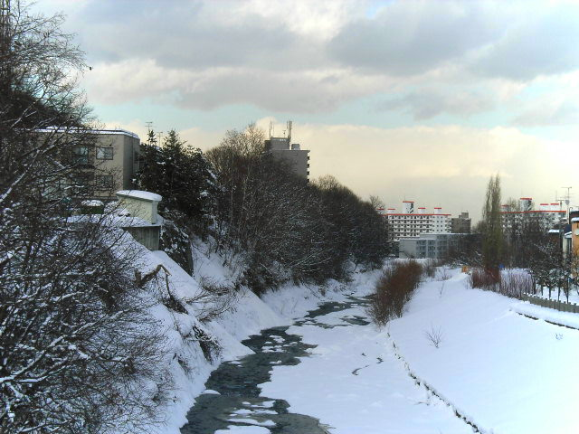 Makomanai River. Minami ward, Sapporo, Hokkaidō prefecture, Japan.